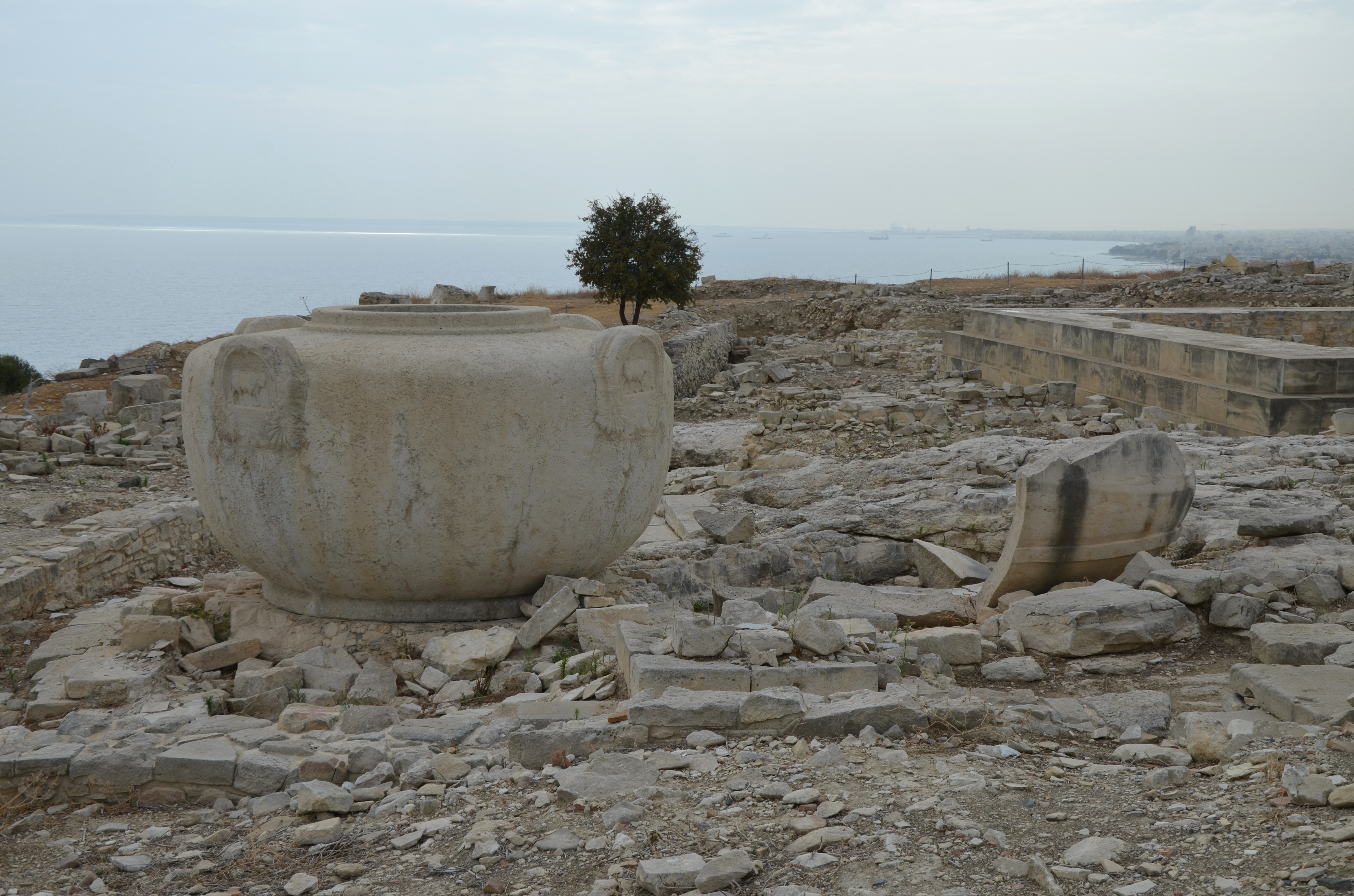 Copie of the monumental vase used as water container for the religious rituals; Acropolis and the Temple of Aphrodite dating approximately to the 1st century BC, Amathous, Cyprus.